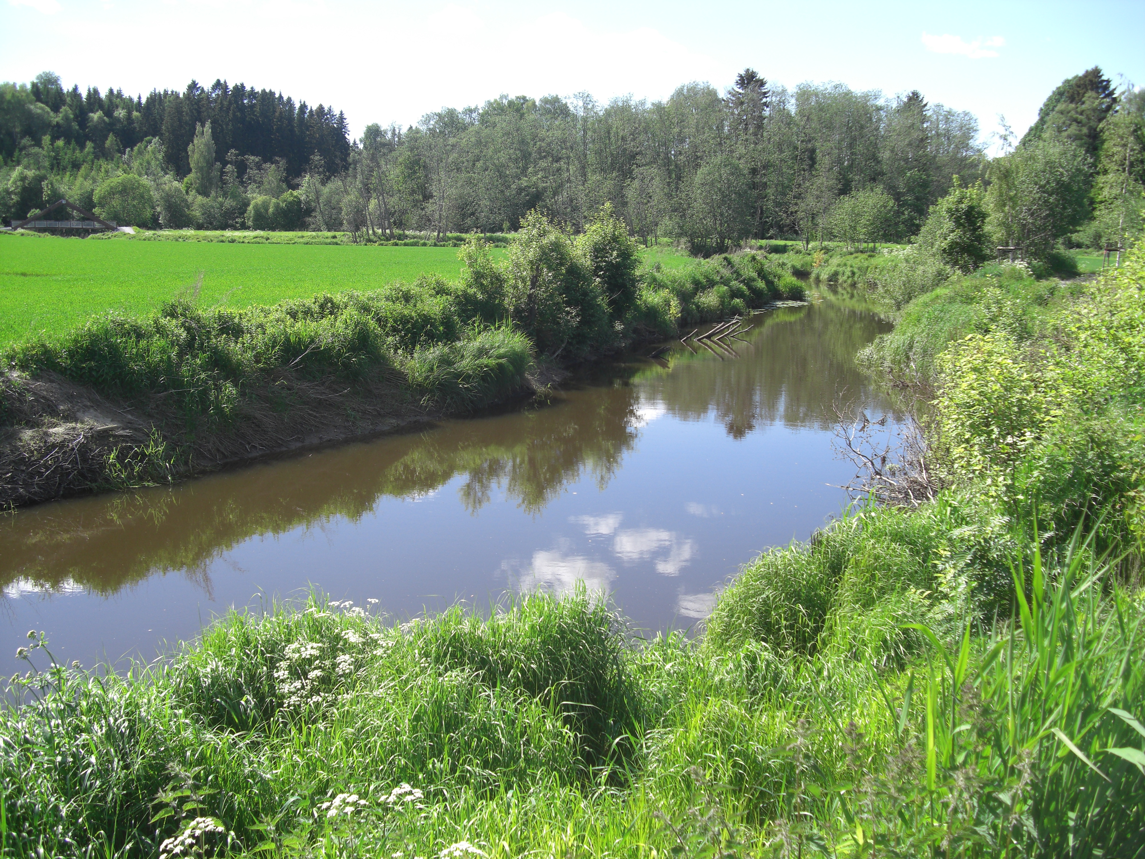 Mysenelva